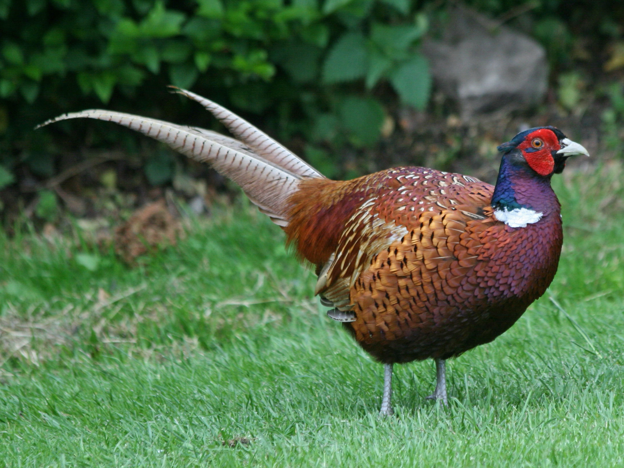 Common Pheasant (Phasianus colchicus) - Scotland